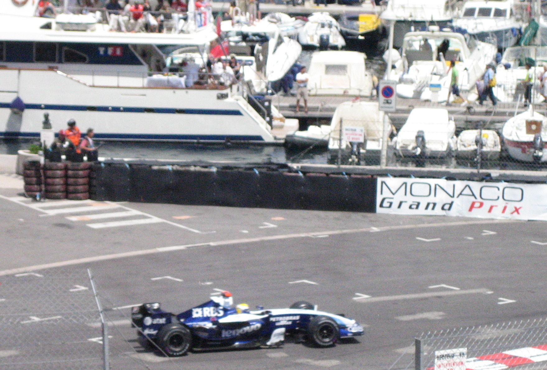 Rosberg at the Monaco GP